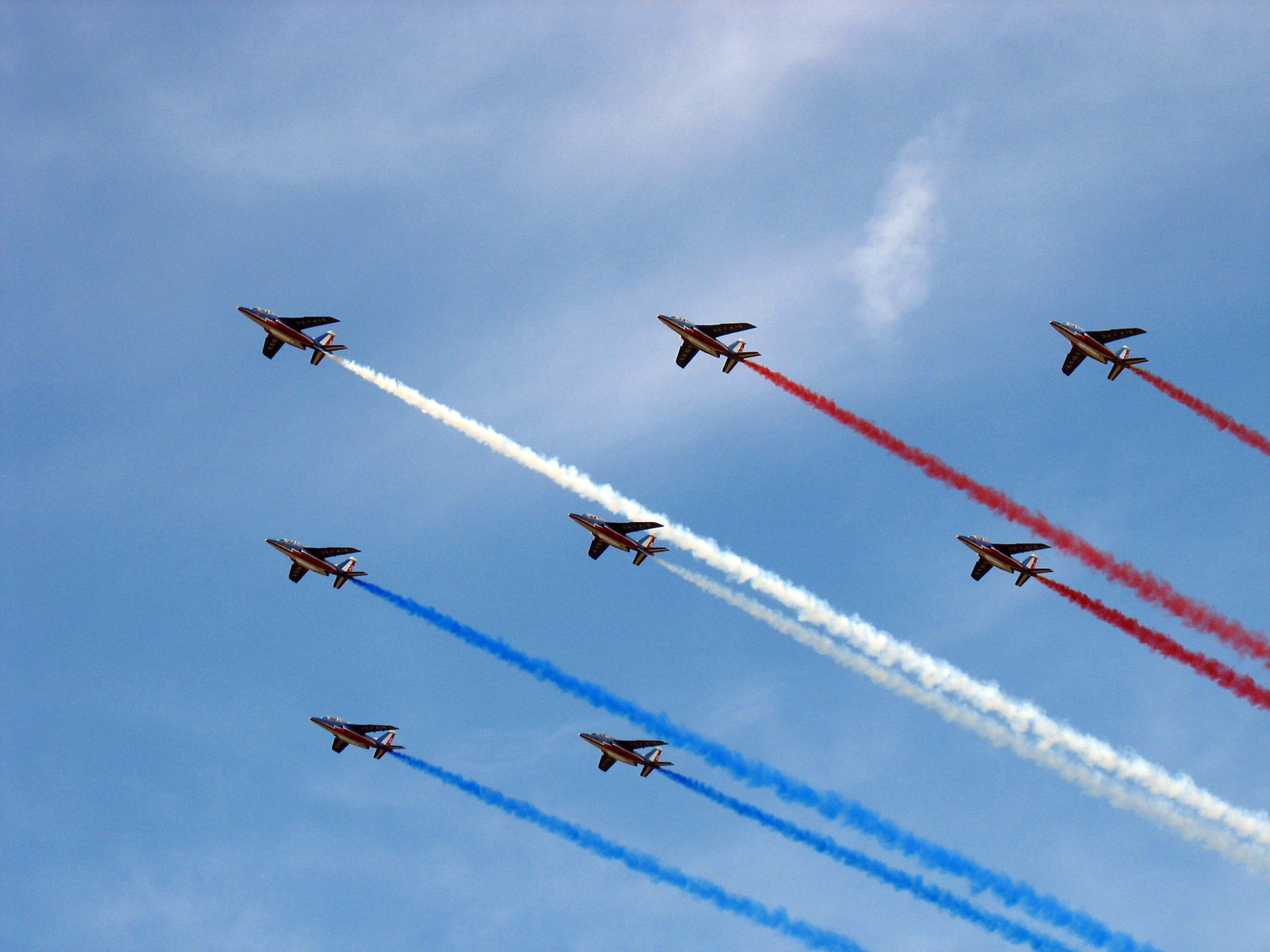 The Patrouille de France in diamond formation, just before performing formation barrell rolls.